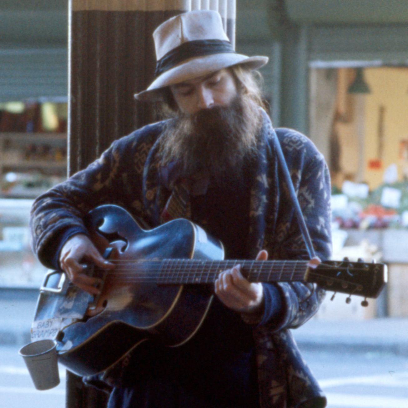 Baby Gramps busking in the Main Arcade of Pike Place Market, Seattle, Washington, U.S., 1970s, with the Corner Market Building in the background.